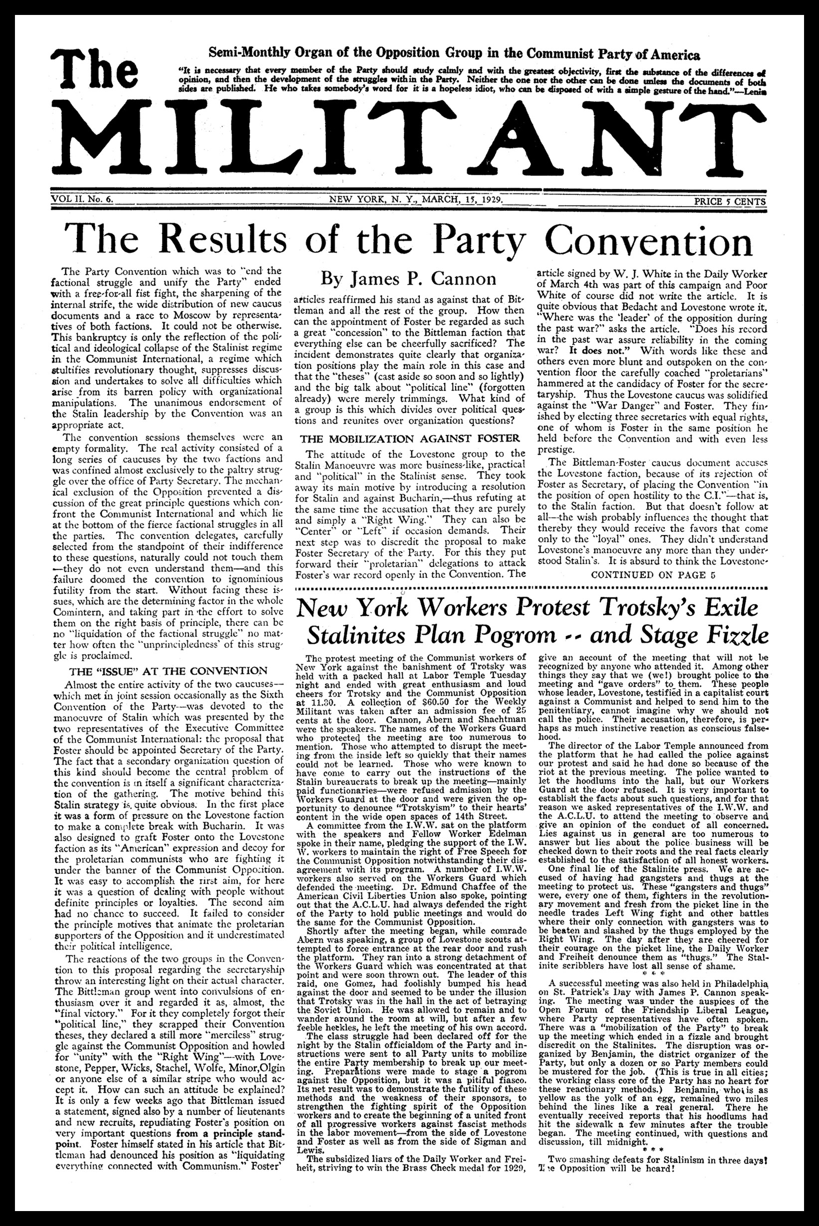 Cover of The Militant, issue of March 15, 1929 James P. Cannon, editor Public domain by virtue of having been published in the United States with no notice of copyright in original publication.